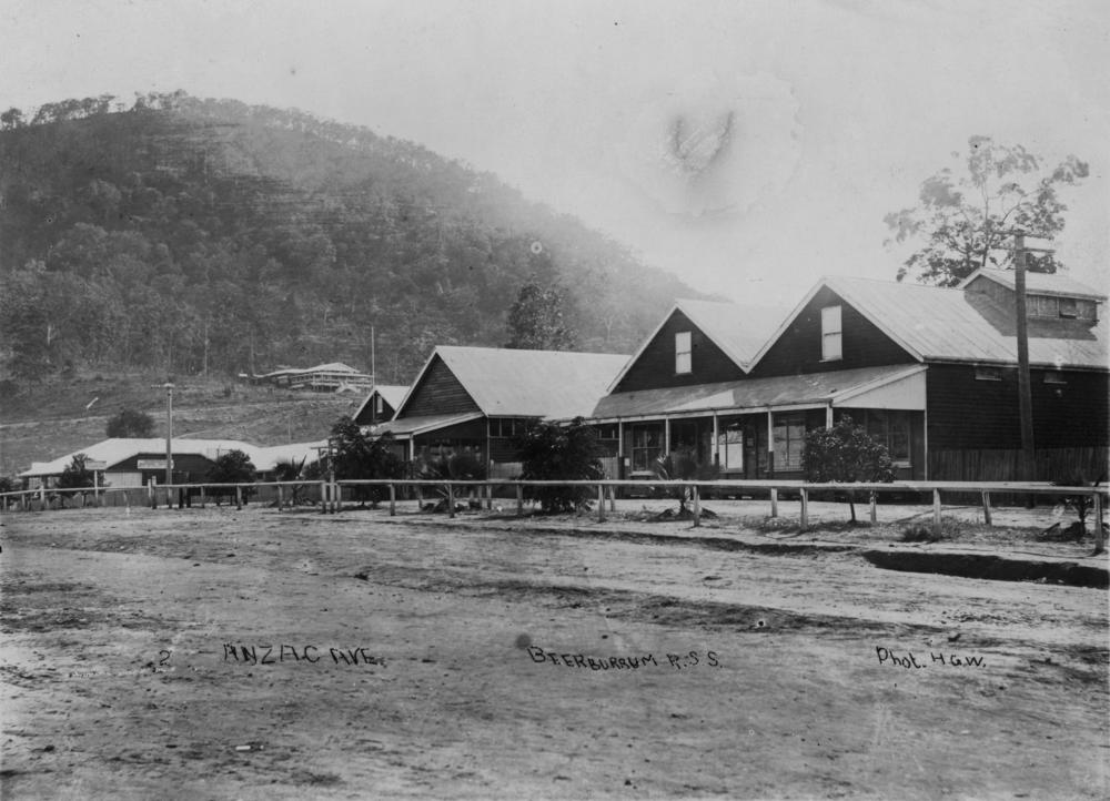 Anzac Avenue, Beerburrum, ca. 1921 After World War I soldiers returned and a lot were settled on farms at Beerburrum. The settlement as such was a failure on account of poor land. (Description supplied with photograph).